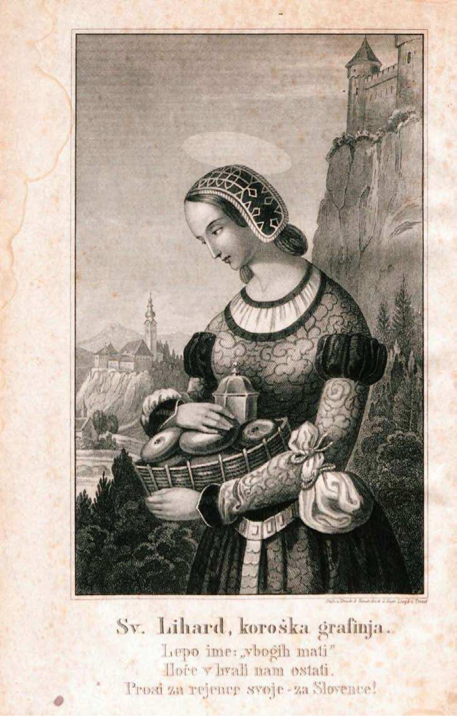 saint Liharda Kamenska or Hildegard von Stein